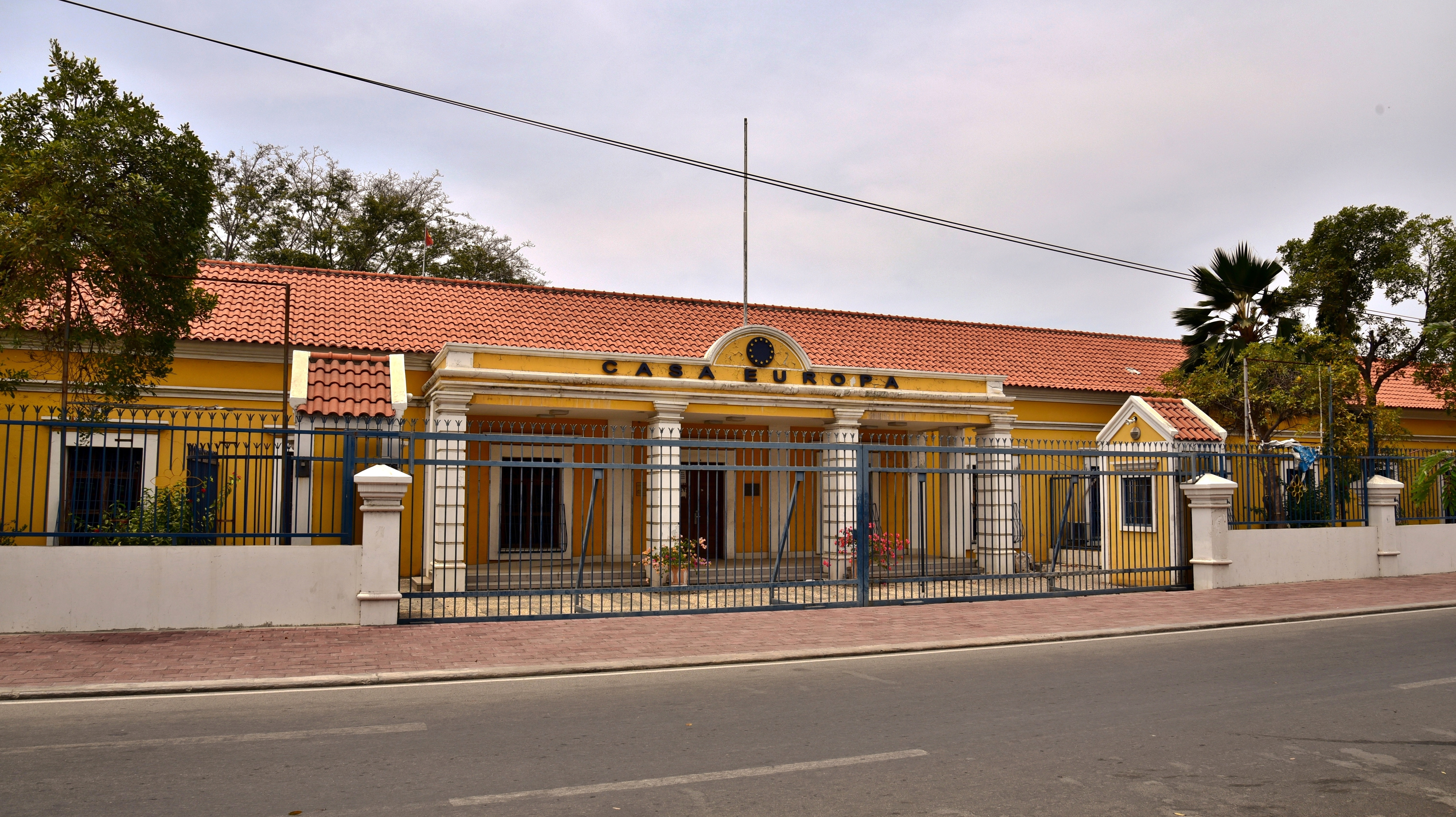 The Casa Europa, Dili, East Timor - originally the Quartel de Infantaria (Infantry Barracks), built between 1884 and 1899